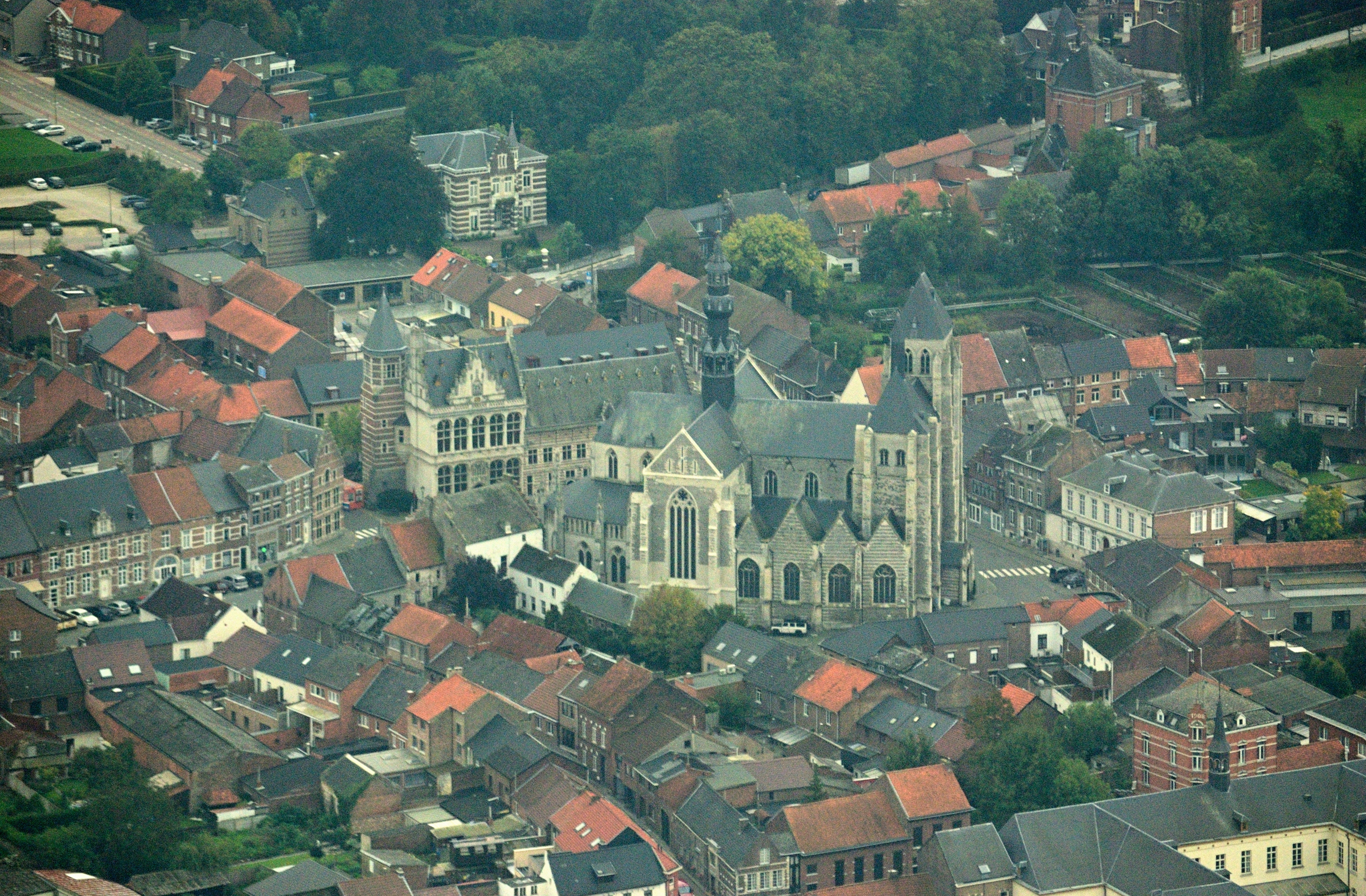 Aerial view of central Zoutleeuw, Belgium. Near the centre of the picture are the town hall and Saint Leonard's church. Nikon D60 f=125mm f/6.3 at 1/640s ISO 800. Processed using Nikon ViewNX 1.5.2 and GIMP 2.6.6.